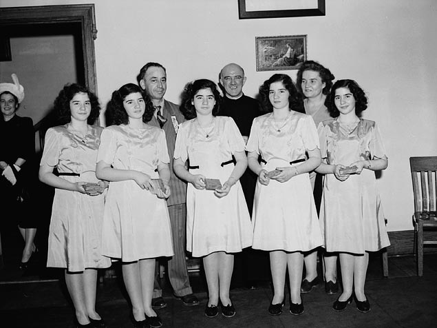 The Dionne quintuplets, accompanied by Mr Oliva Dionne and Frère Gustave Sauvé, take part in a program of religious music at Lansdowne Park, during the five day Marian Congress which prayed for peace and celebrated the centenary of the Ottawa archdiocese